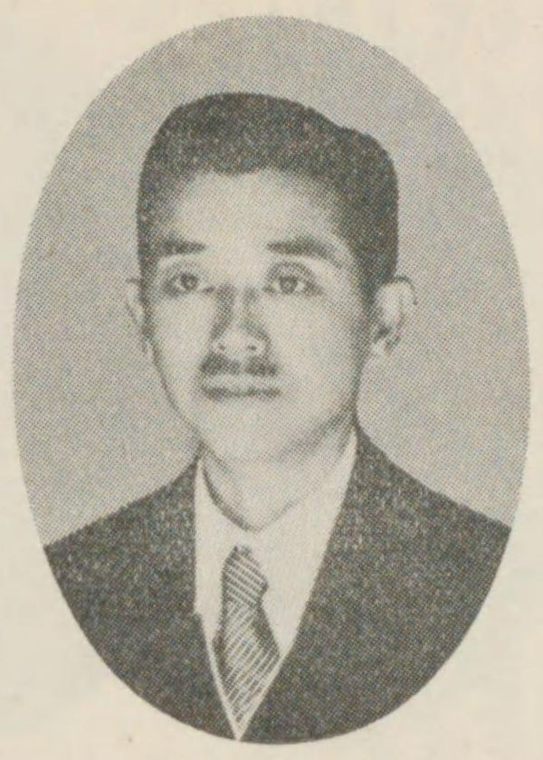 Tokujun Tomiyama